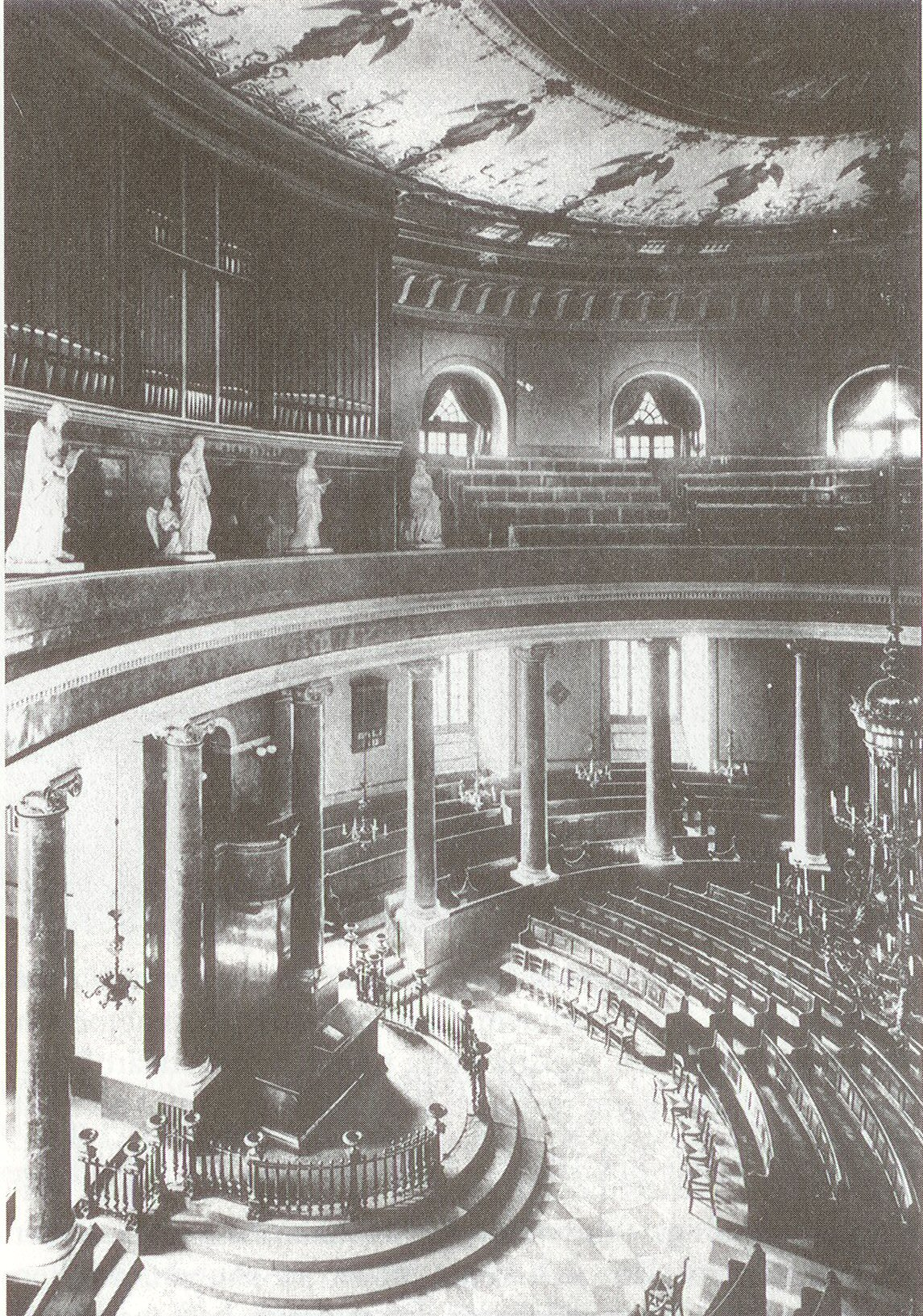 Interior of the Paulskirche (St. Paul's church), Francfort, Germany, 1892.